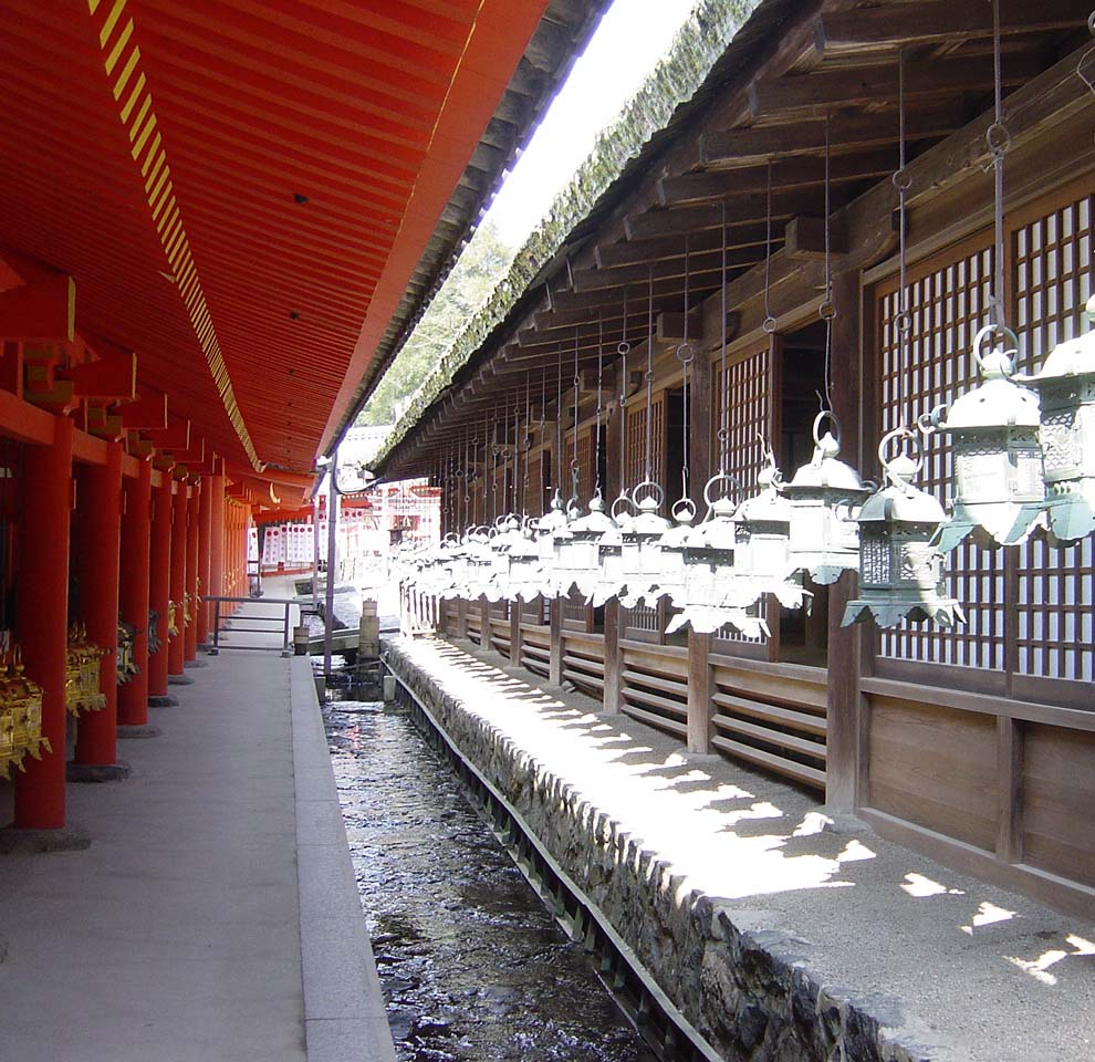 Photo taken by Bobak Ha'Eri. March 2005. Please observe license and properly cite in use outside Wikipedia. Bronze lanterns in Kasuga-taisha Shinto shrine, Nara.